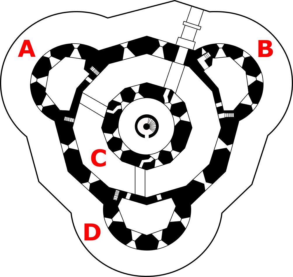 Hurst Castle keep 16th century labelled